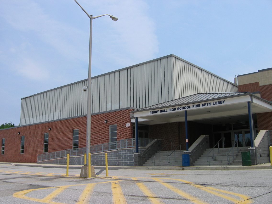 A view of Perry Hall High School from its side entrance to the auditorium lobby.